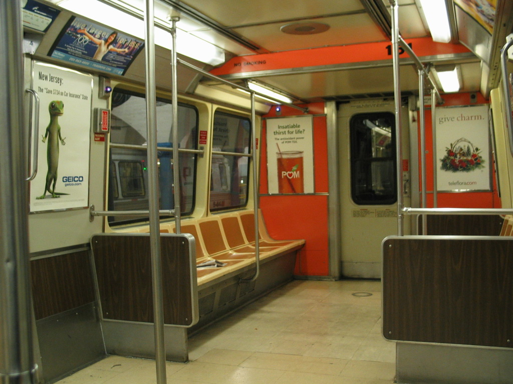 Inside the PATH train, board number 161